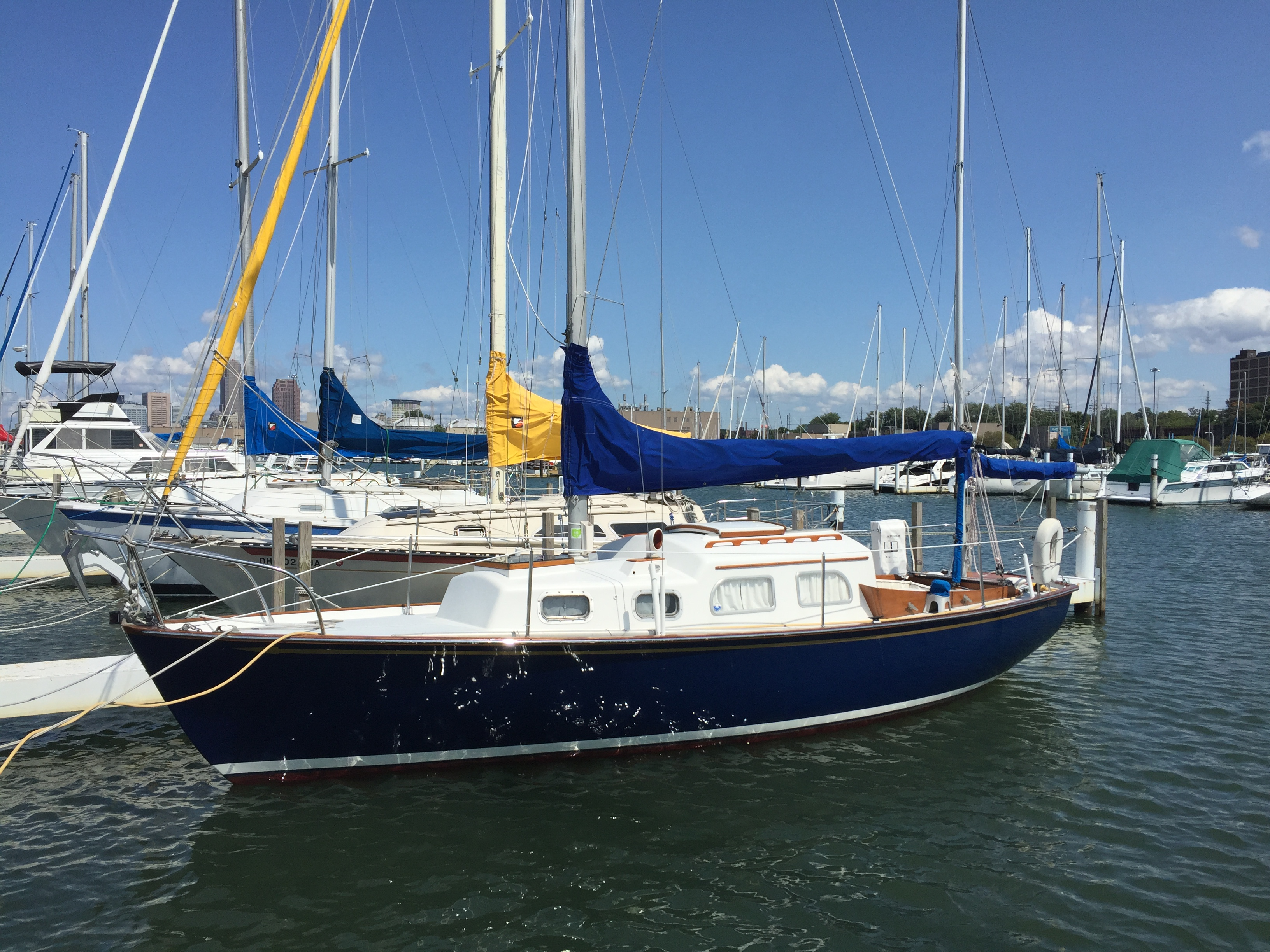 A photograph of Curlew taken in the summer 2017 at Edgewater Yacht Club in Cleveland, Ohio